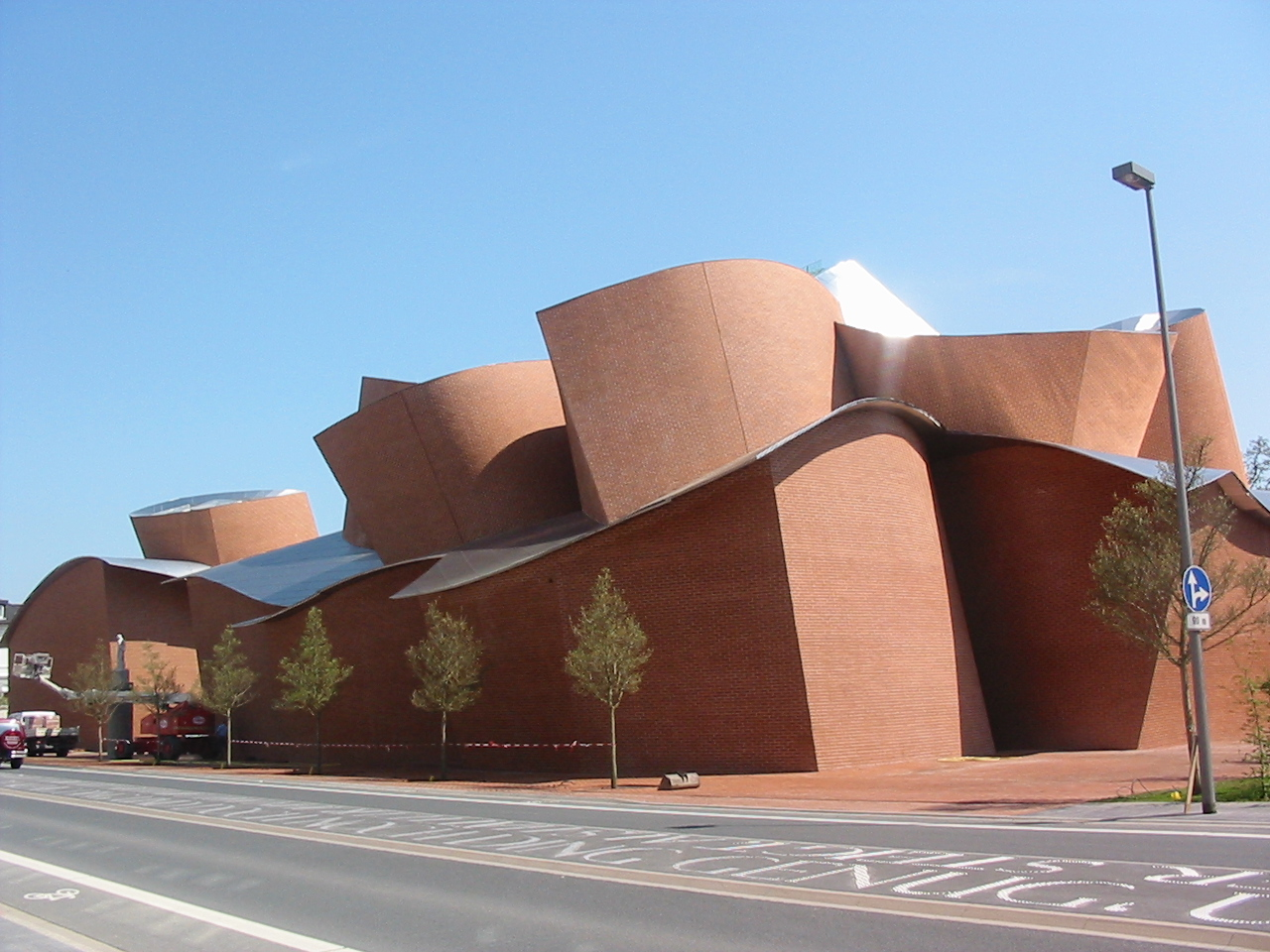 Marta in town of Herford, District of Herford, North Rhine-Westphalia, Germany. 6 Days before the opening.